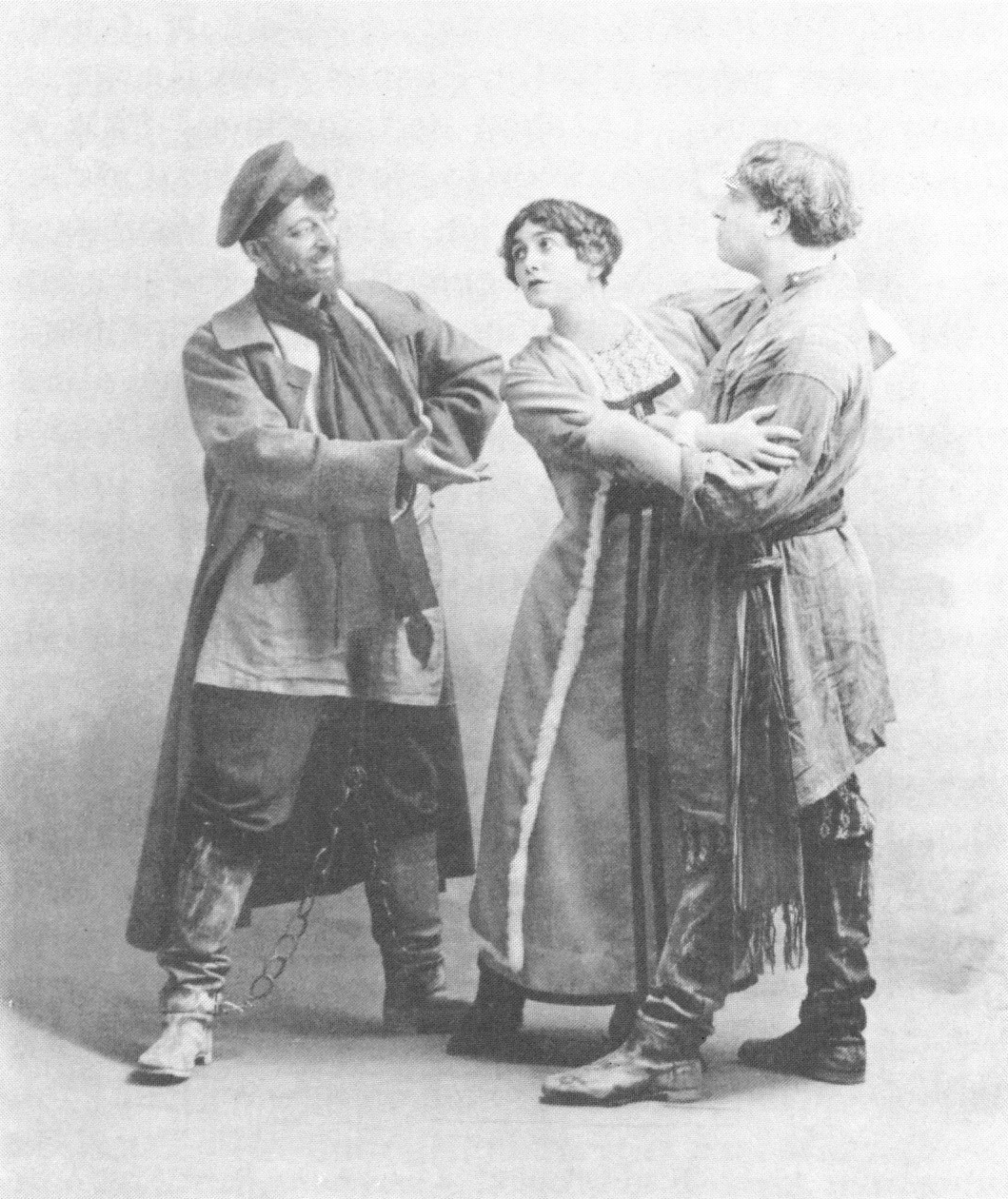 Umberto Giordano - Siberia - scene from the 3. act - Paris 1911 Gleby: Henri Dangès Stephana: Lina Cavalieri Vassili: Lucien Muratore